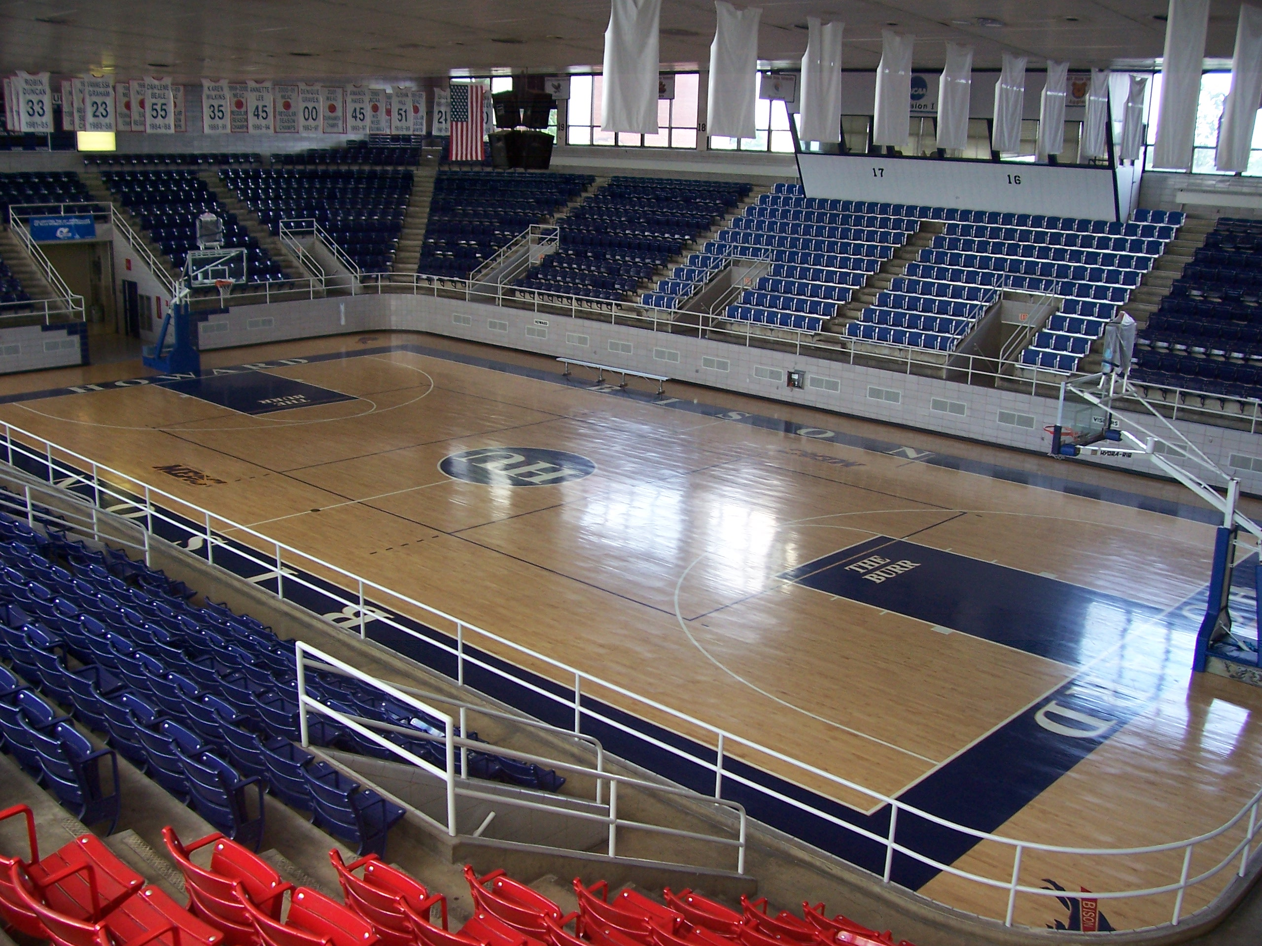 Burr Gymnasium on the campus of Howard University in Washington DC